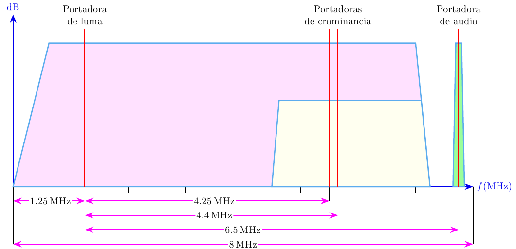 Spectrum graph of a SECAM-L color television signal